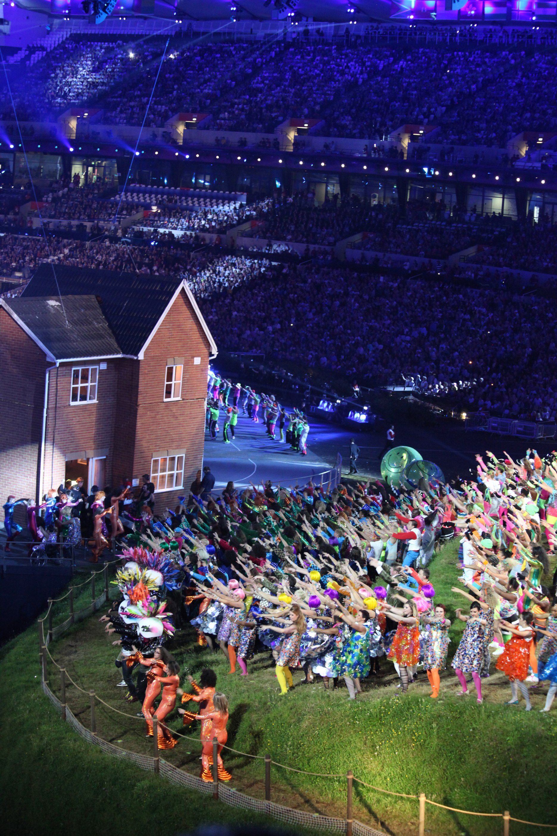 The segment celebrating British music at the London Olympics